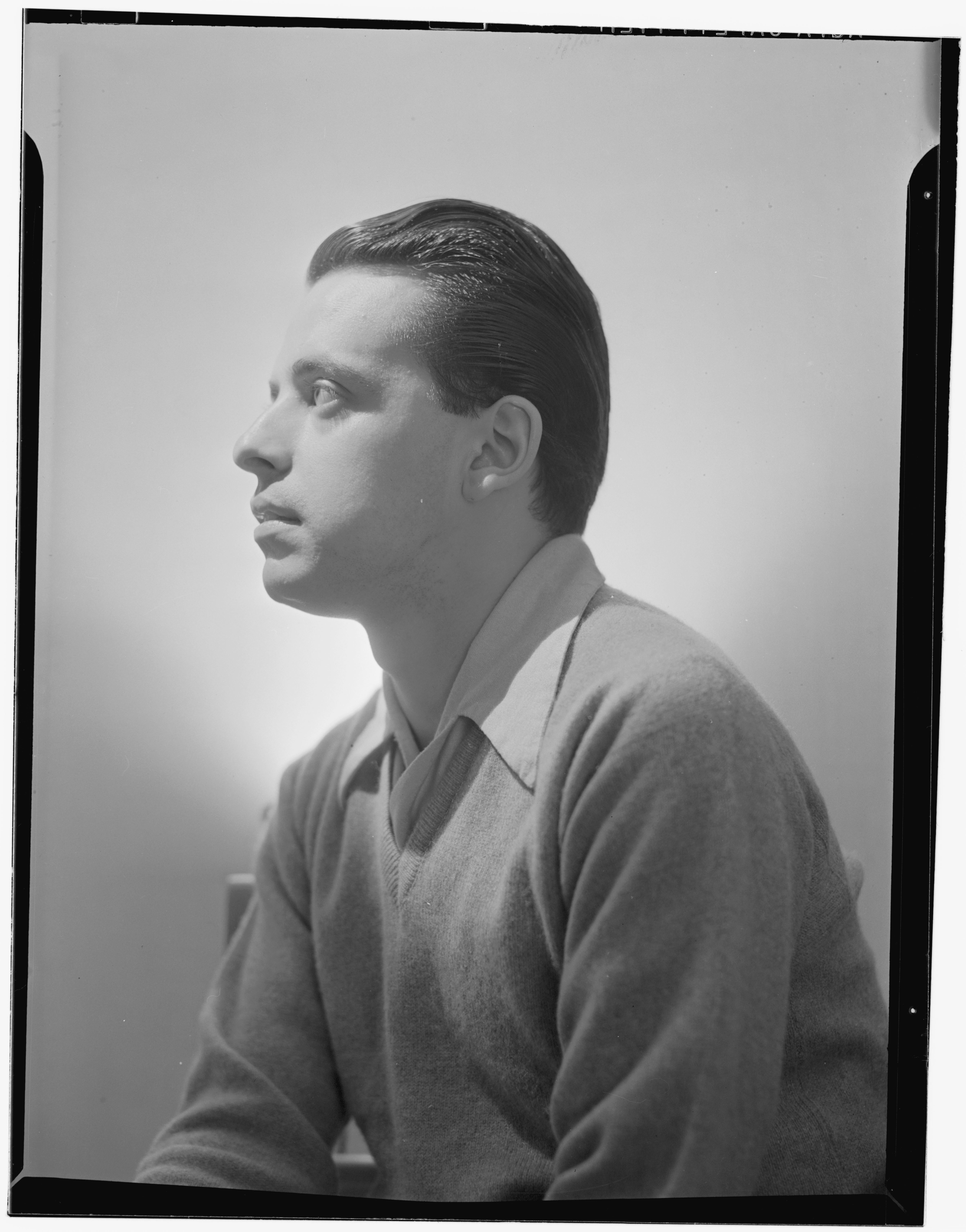 Nesuhi Ertegun. Black and white film negative. 3,25 x 4,25 inches.